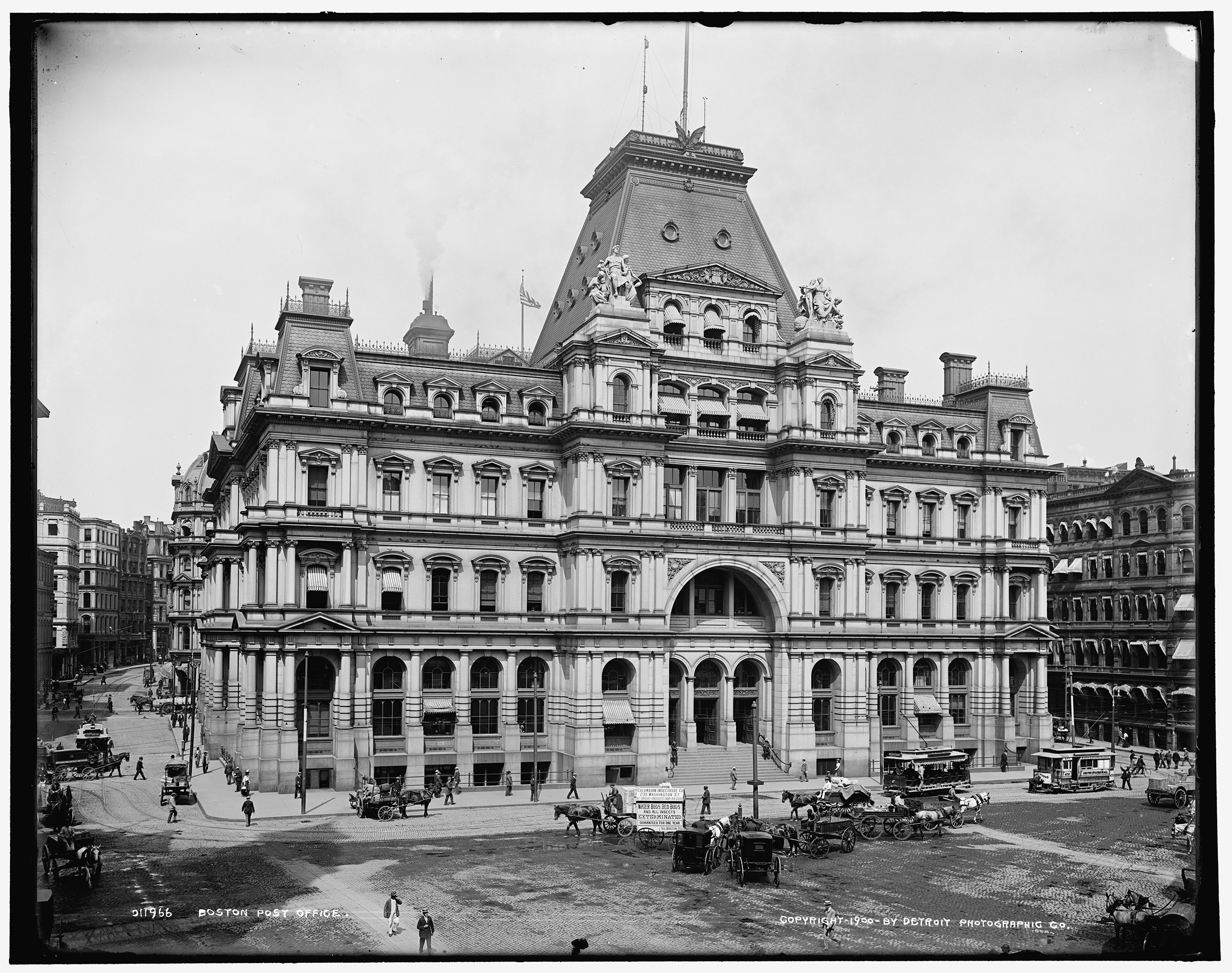 The United States Post Office and Sub-Treasury Building in Boston, ca. 1900. Taken from across Post Office Square.